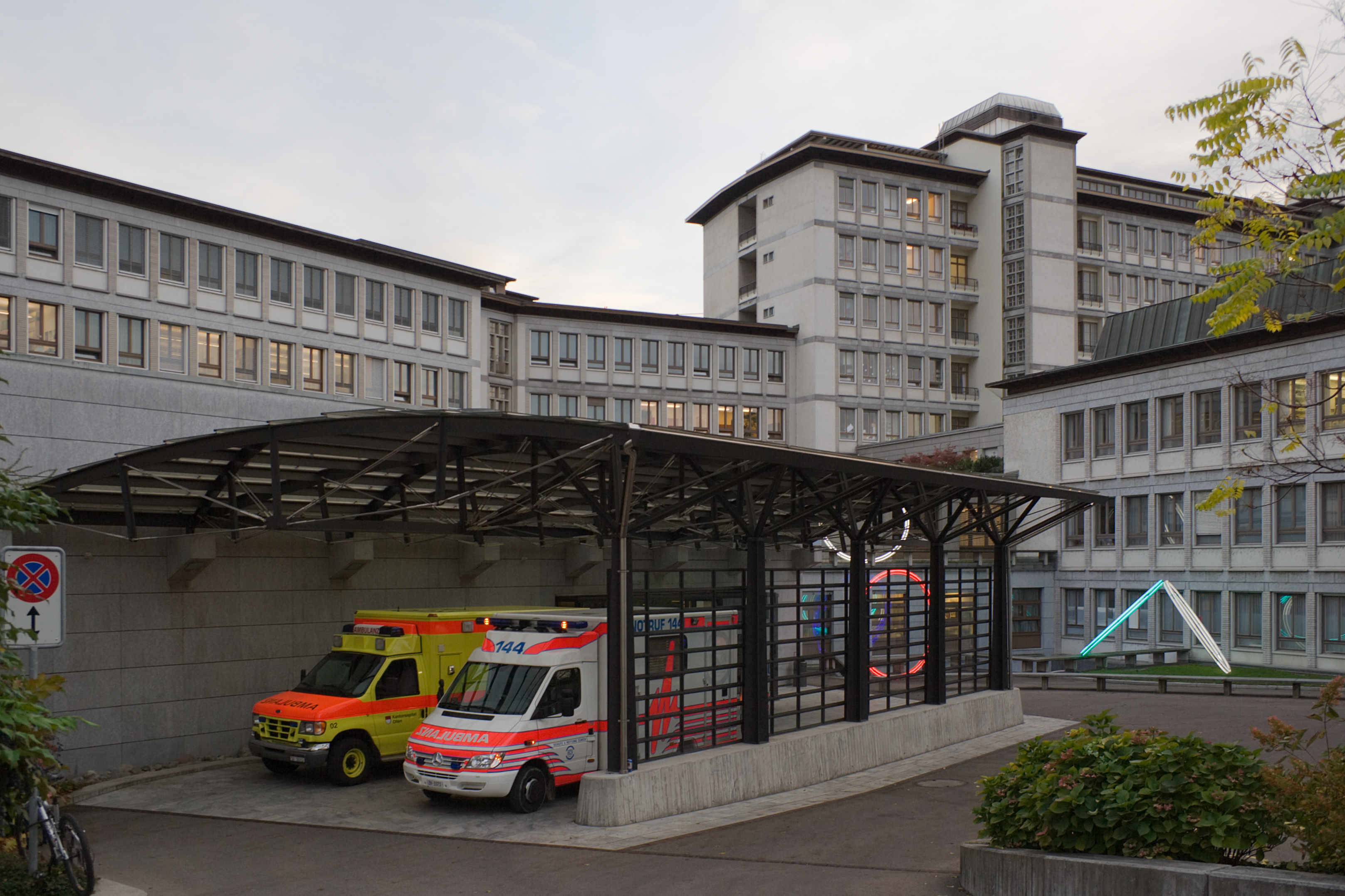 Emergency Department of the University Hospital in Zurich, Switzerland. The roof in the foreground is newly built, the building behind is was designed by Häfeli Moser Steiger architects. Ford and Mercedes-Benz ambulances with "AMBULANZ" in mirror writing ("ZNALUBMA").